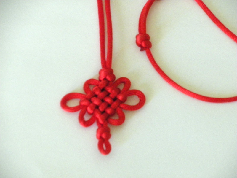 Chinese Pan Chang knot